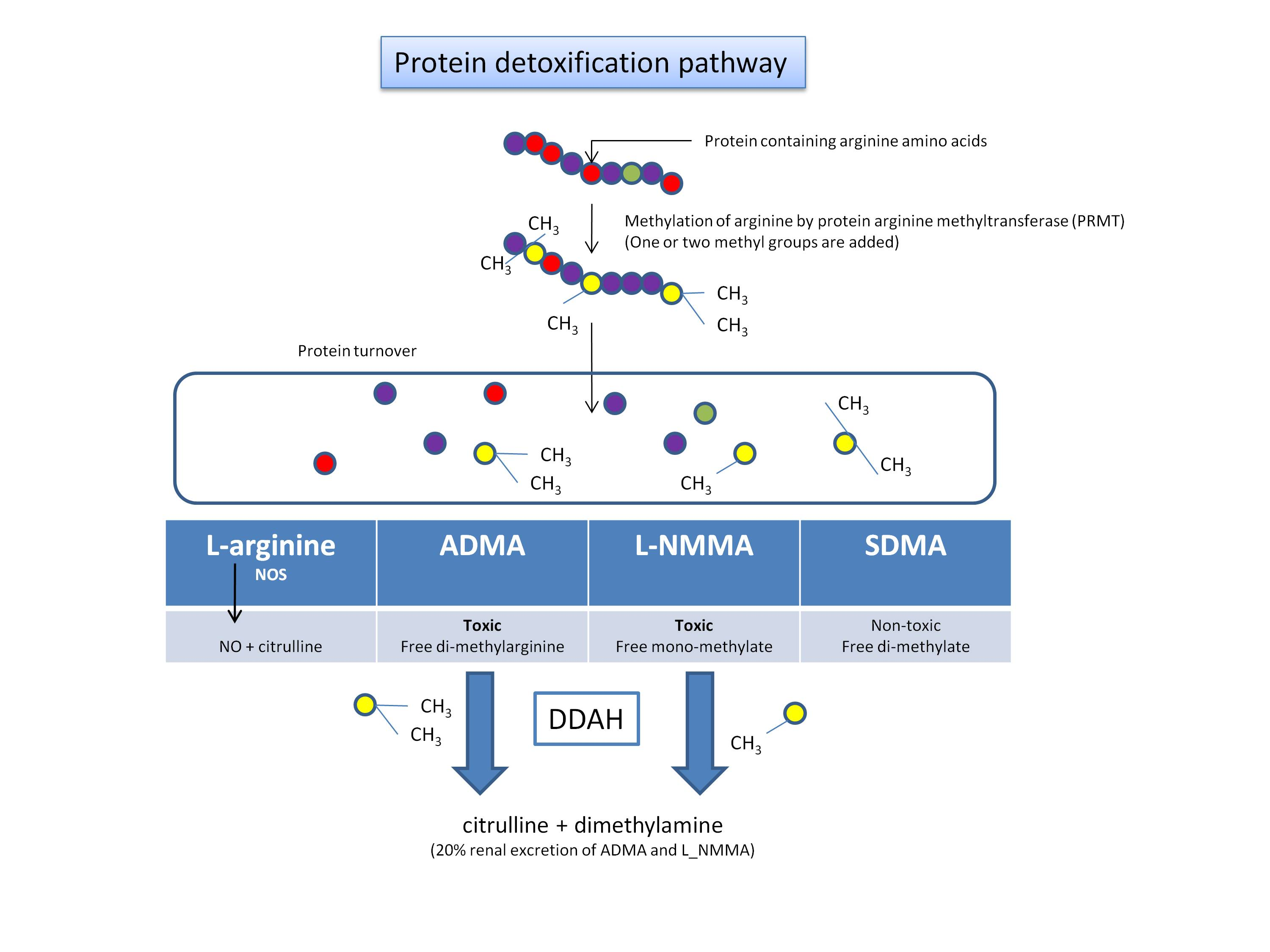 Protein detoxification pathway Protein arginine methylation is performed by a class of enzymes termed protein arginine methyltransferases (PRMT), which specifically methylate protein-incorporated L-arginine (L-Arg) residues to generate protein incorporated monomethylarginine (L-MMA), asymmetric dimethylarginine (ADMA), or symmetric dimethylarginine (SDMA). Upon proteolytic cleavage of arginine-methylated proteins, free intracellular MMA, ADMA, or SDMA are generated. Free L-Arginine can be metabolized by arginases to L-ornithine and urea, or by nitric oxide synthases (NOS) to NO and L-citrulline. Free methylarginines can also be released to the extracellular space by cationic amino acid transporters (CAT) to induce distinct biological effects, undergo hepatic metabolism, or renal excretion. MMA and ADMA, but not SDMA can be converted to L-citrulline and mono- or diamines by a class of intracellular enzymes called dimethylarginine dimethylaminohydrolases (DDAH). Most importantly, MMA and ADMA, but not SDMA, act as potent endogenous inhibitors of NOS enzymes.